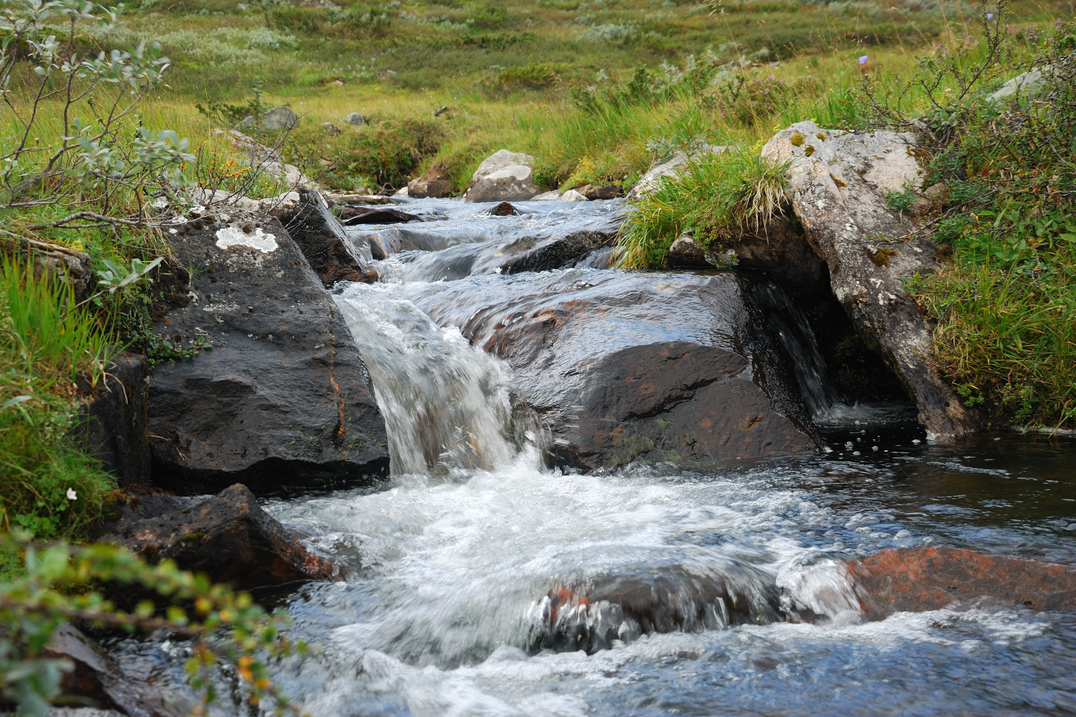 Small creek on Mount Gröndörrsstöten, Sweden.